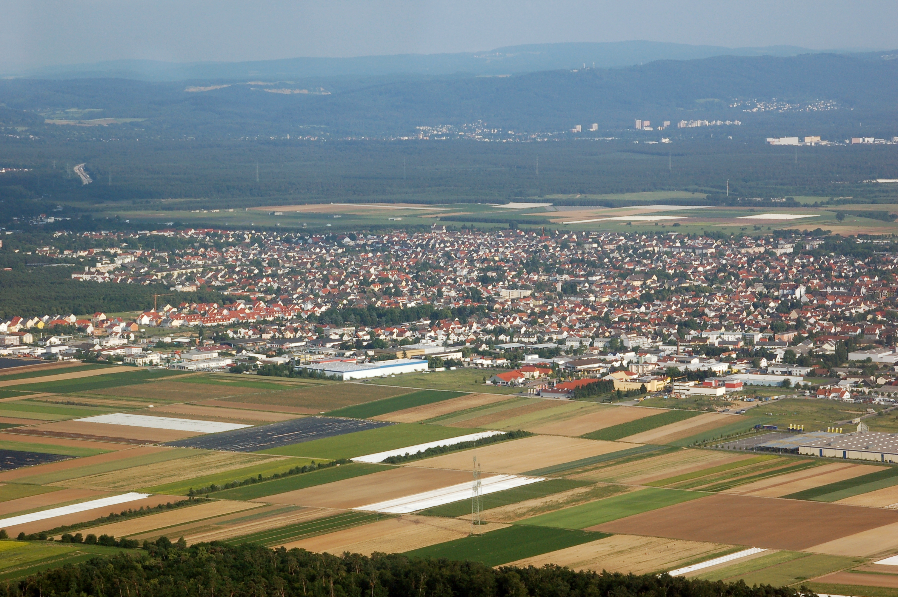 Aerial photograph of Griesheim, Hesse, Germany